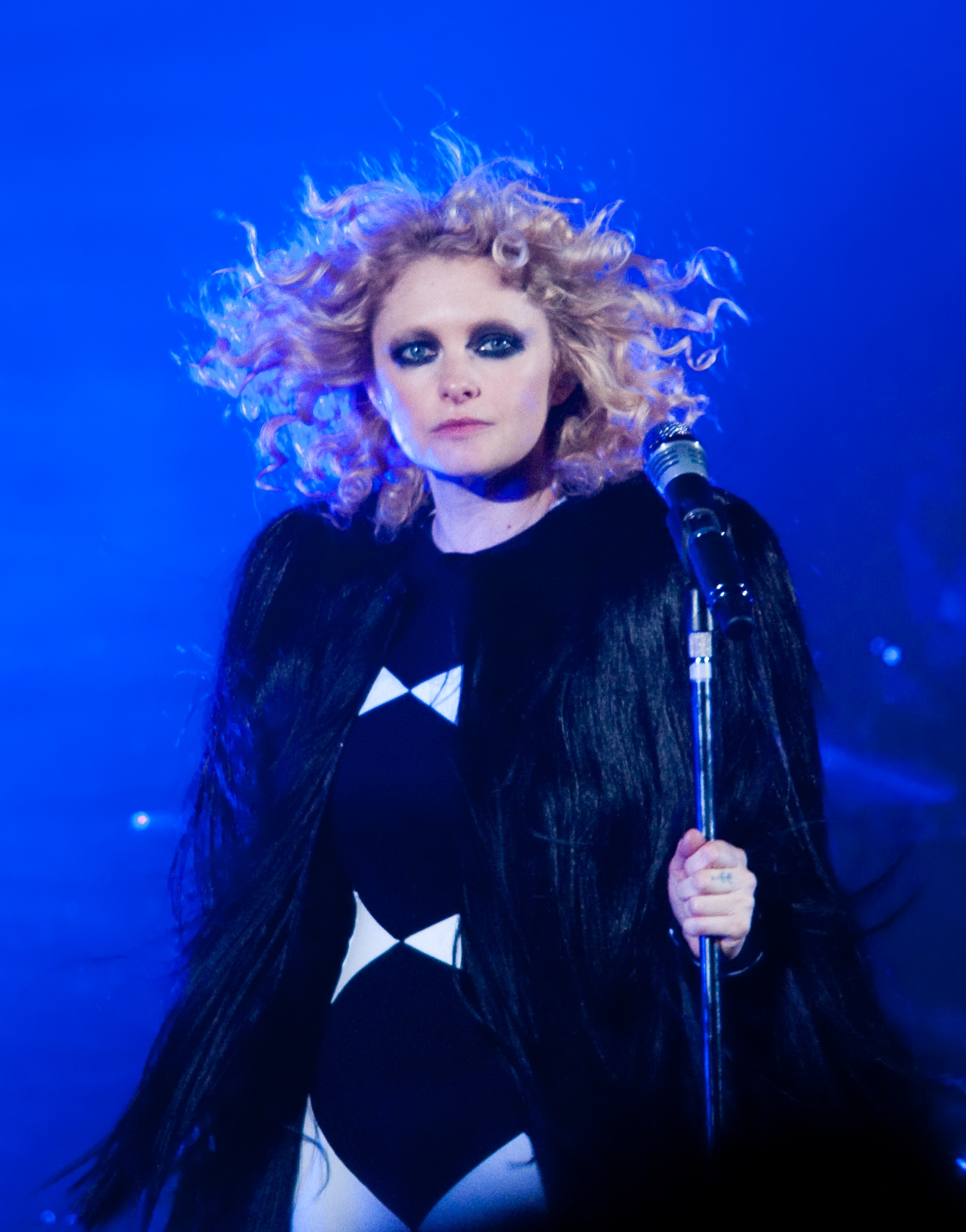 Alison Goldfrapp performing live November 11, 2010